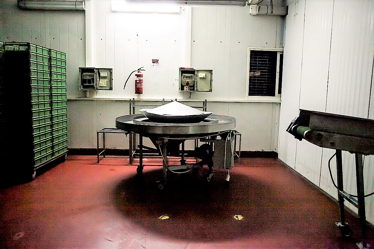 Chick grinding machine used for maceration in hatchery